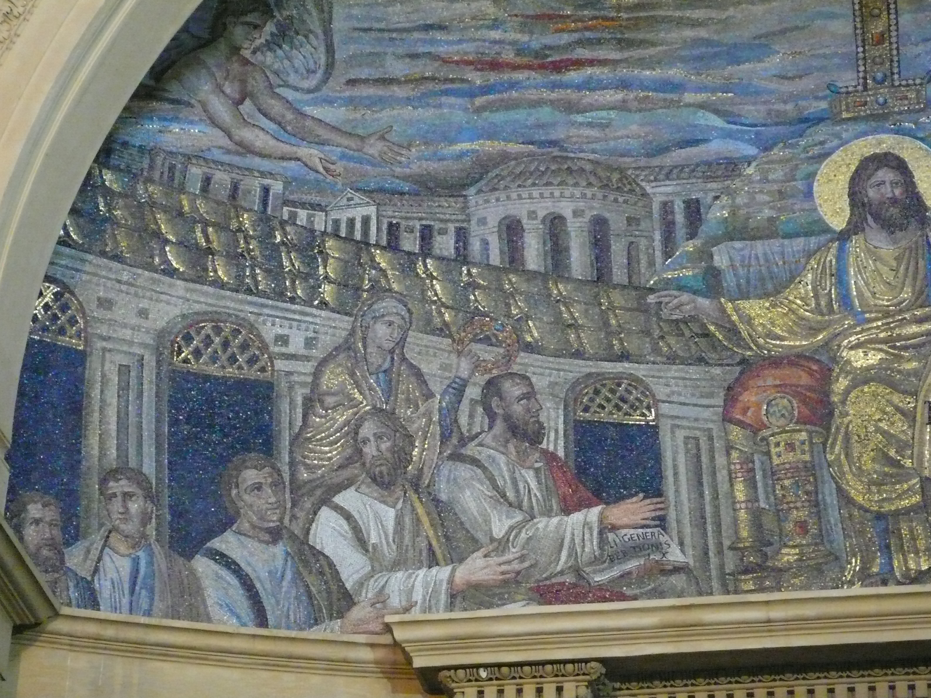 Apsis mosaic of Santa Pudenziana, Rome; Detail.